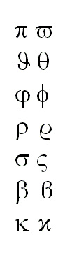 Variant forms of Greek letters in mathematical formulae